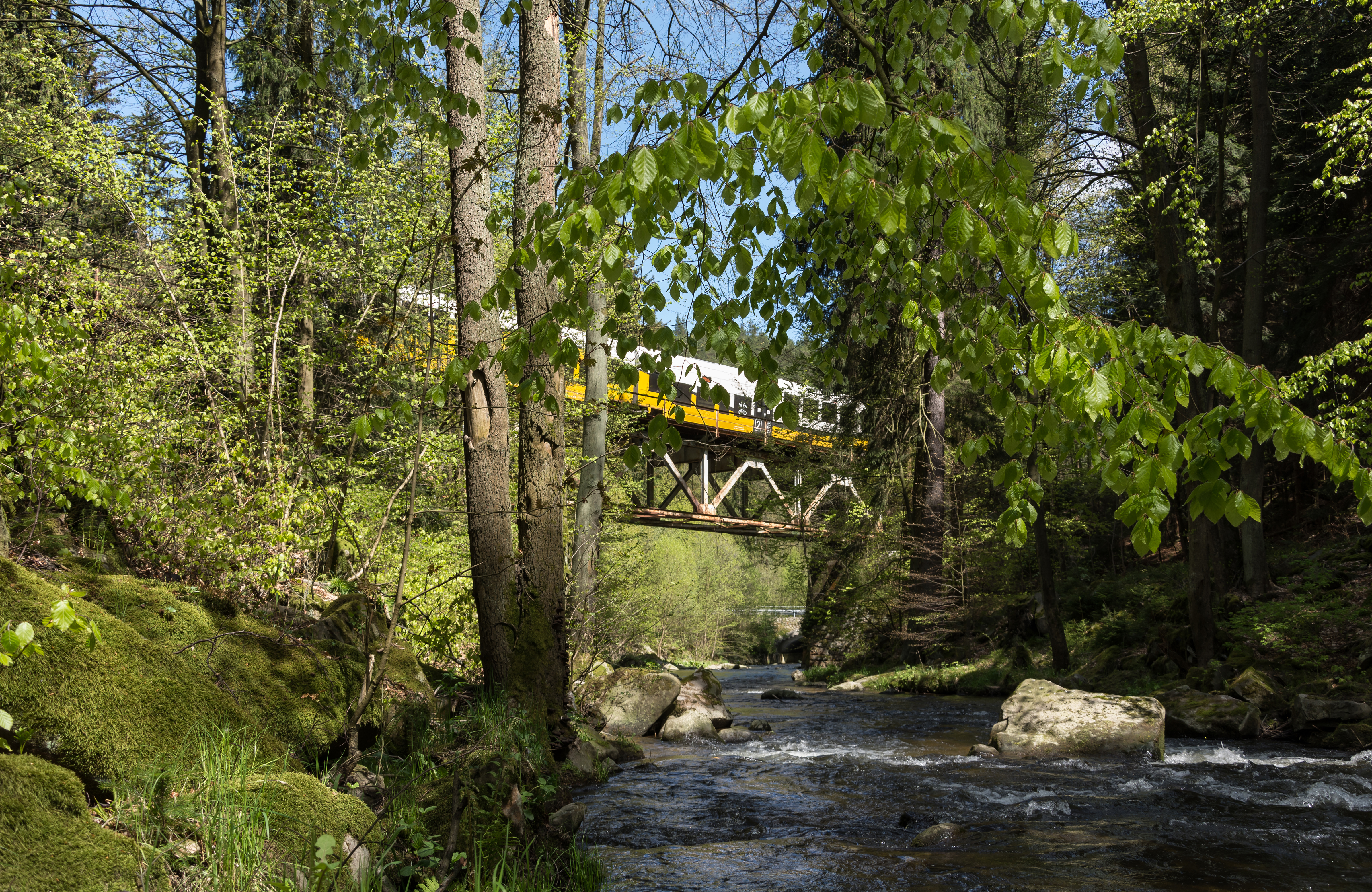 Bystrzyca Dusznicka in Piekielna Dolina